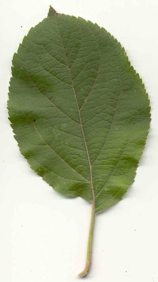 folla, hoja, leaf(Galicia - Spain)